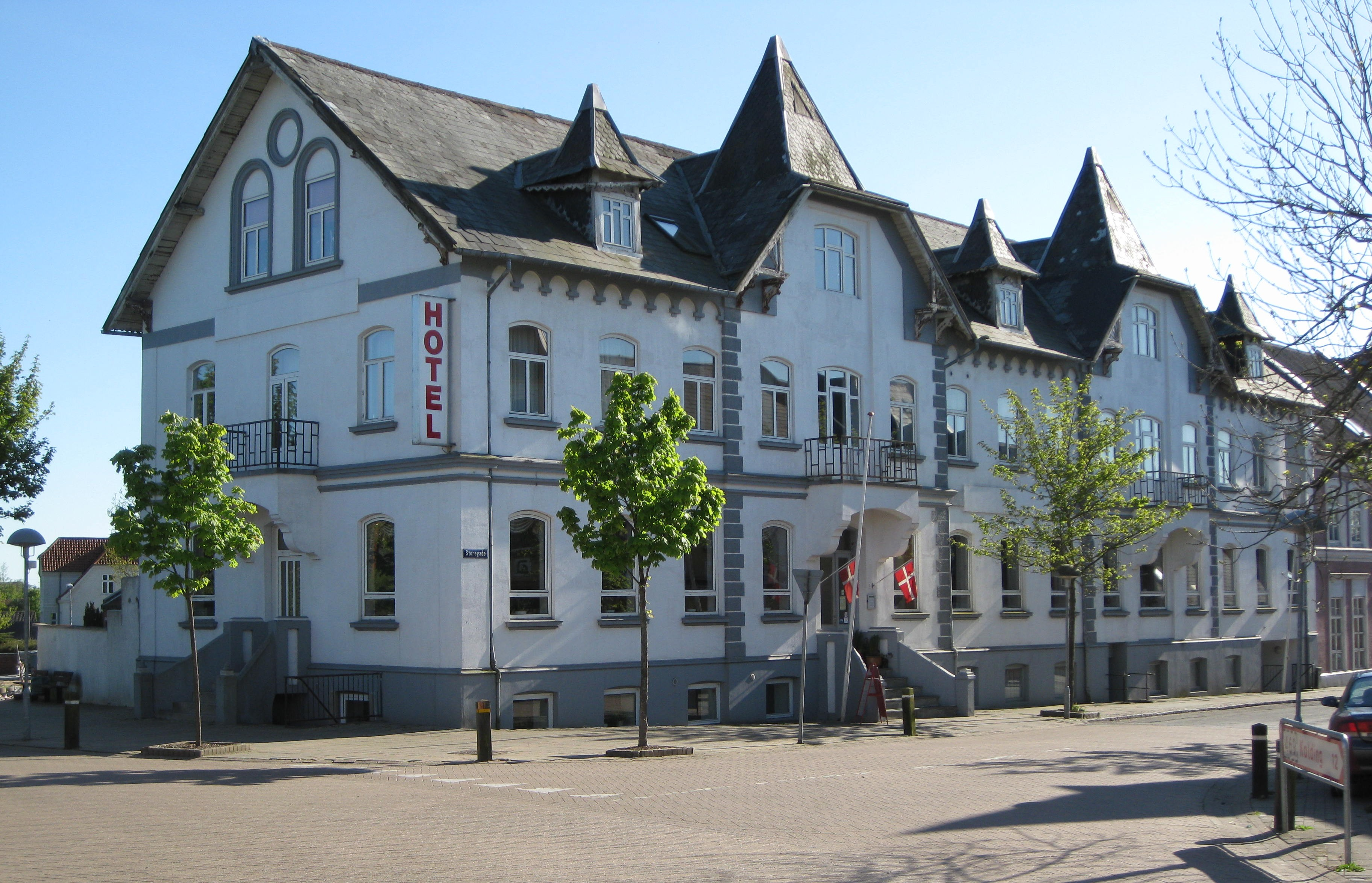 The hotel "Hotel Lunderskov" in the small town "Lunderskov". The town is located in Kolding Kommune, South-Central Jutland, Denmark.